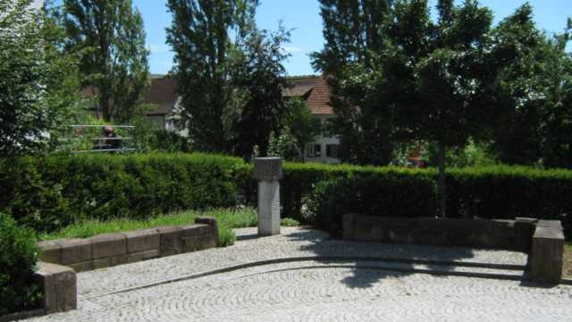 Müllheim, Germany, Baden-Württemberg: Memorial of the old Synagoge- destroyed 1938 at "Reichspogromnacht"